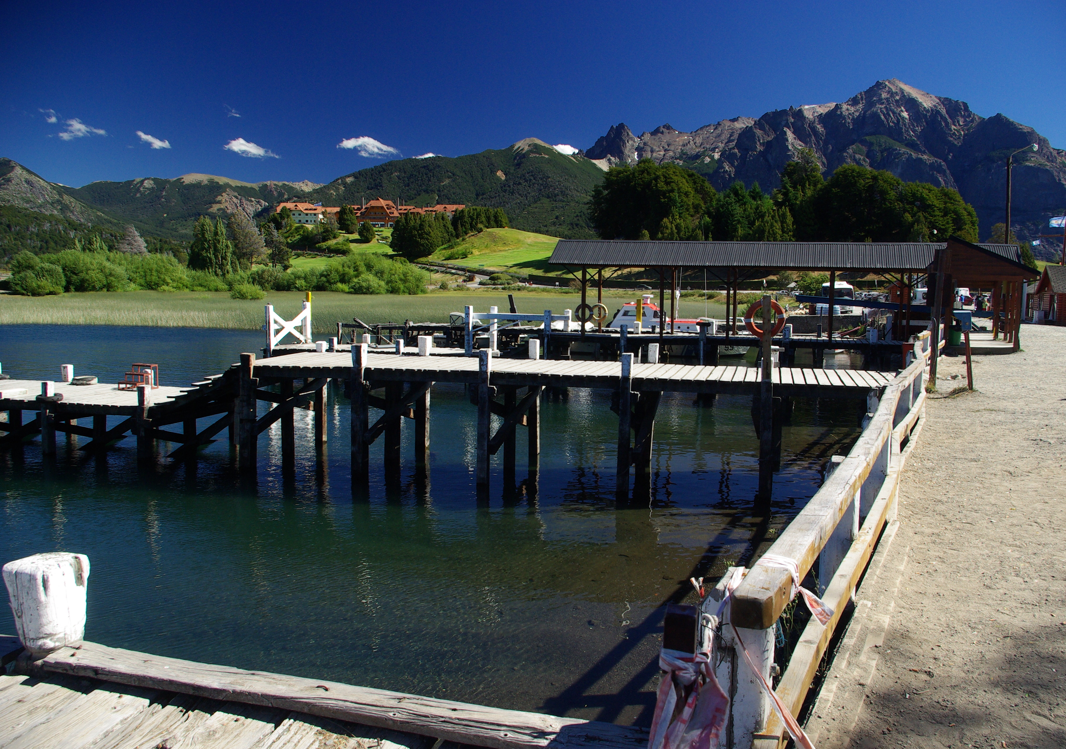 Puerto Pañuelo, a small port on Lago Nahuel Huapi, near the village of Llao Llao, and the city of Bariloche. The Hotel Llao Llao is seen in the distance.